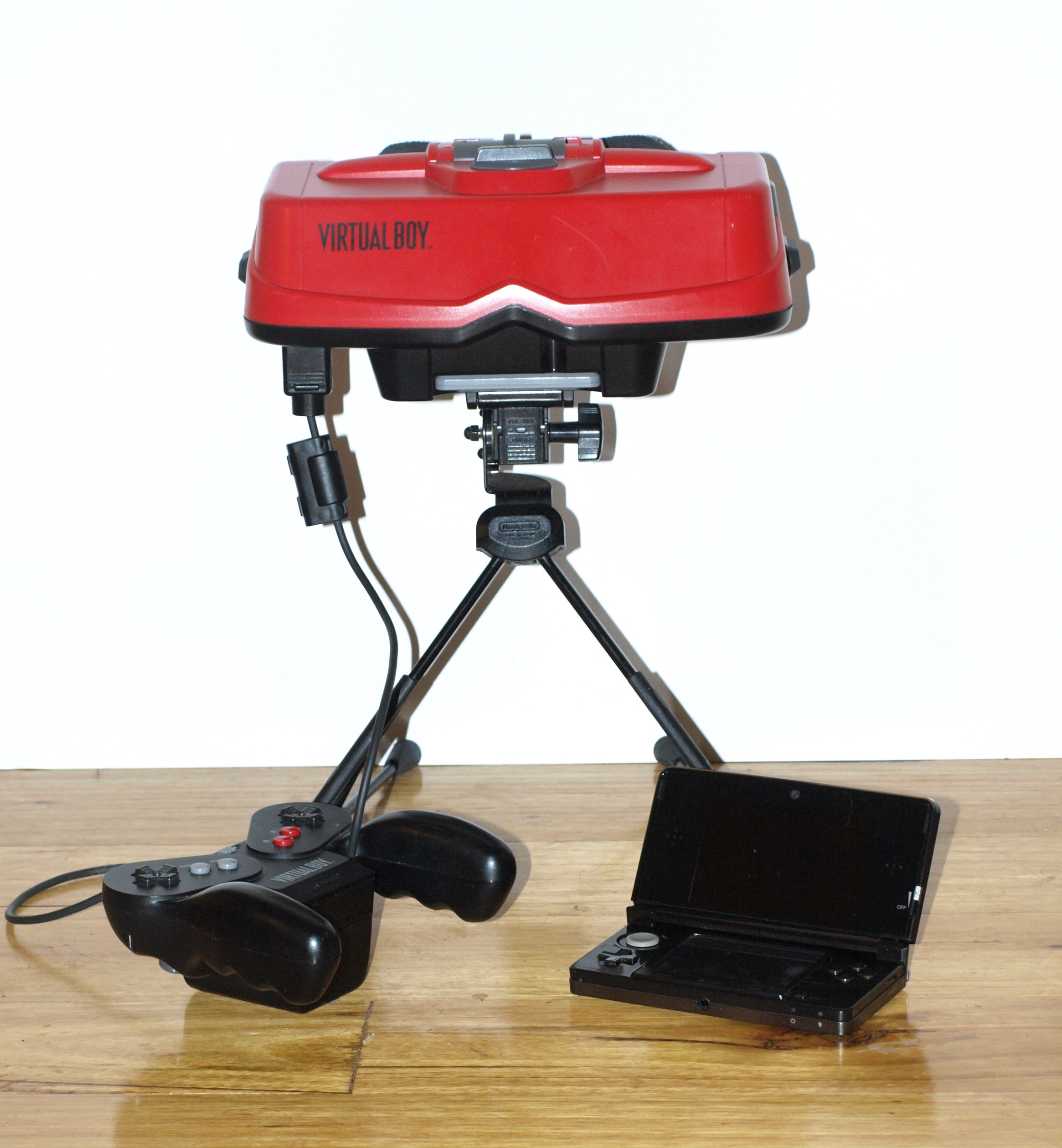 Another photo showing both the Nintendo Virtual Boy video game console and the Nintendo 3DS handheld. These two systems, in a very different way to each other, use a 3D display.